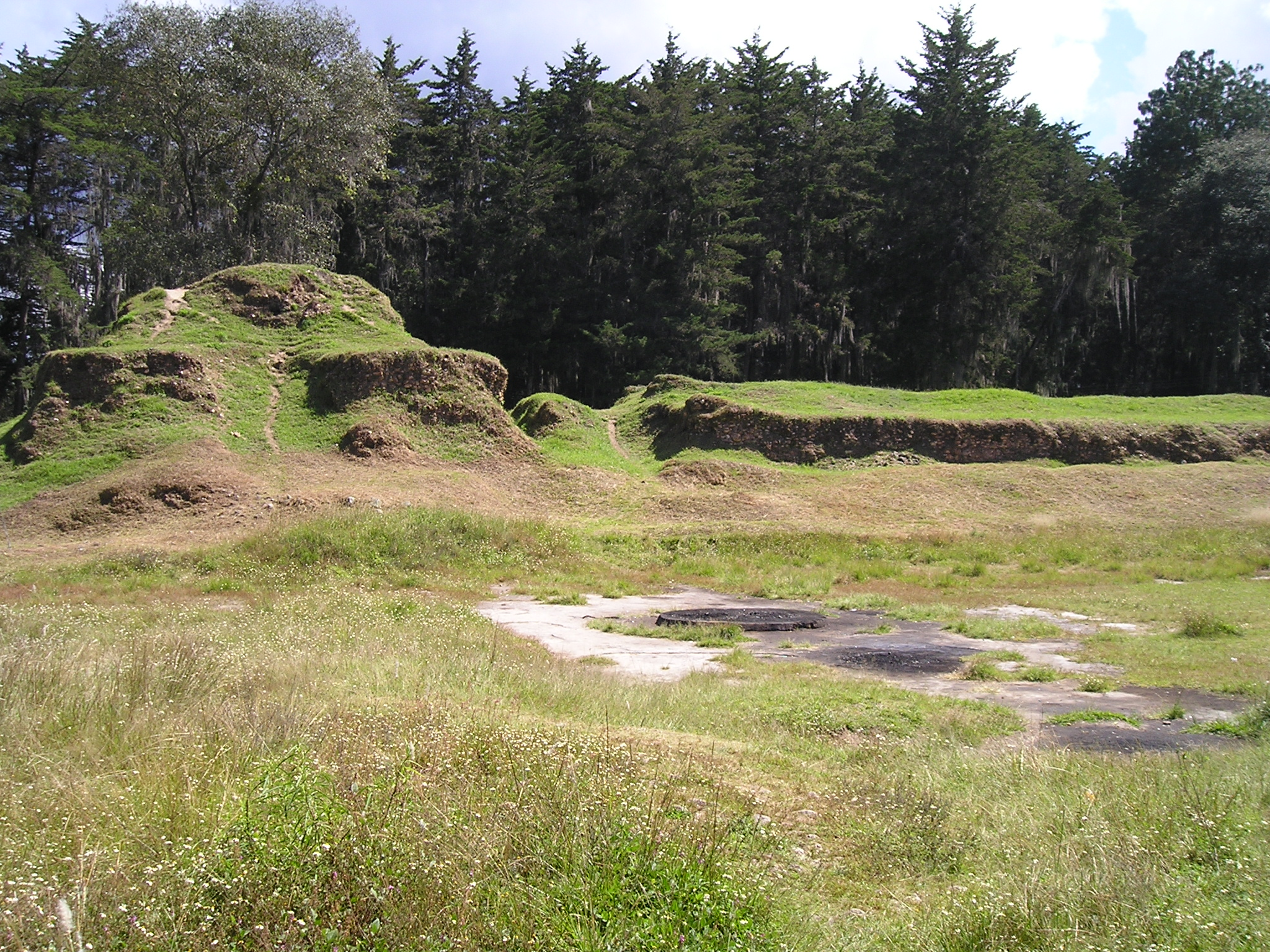 Temple of Awilix at Q'umarkaj (Utatlán) in El Quiché department, Guatemala.